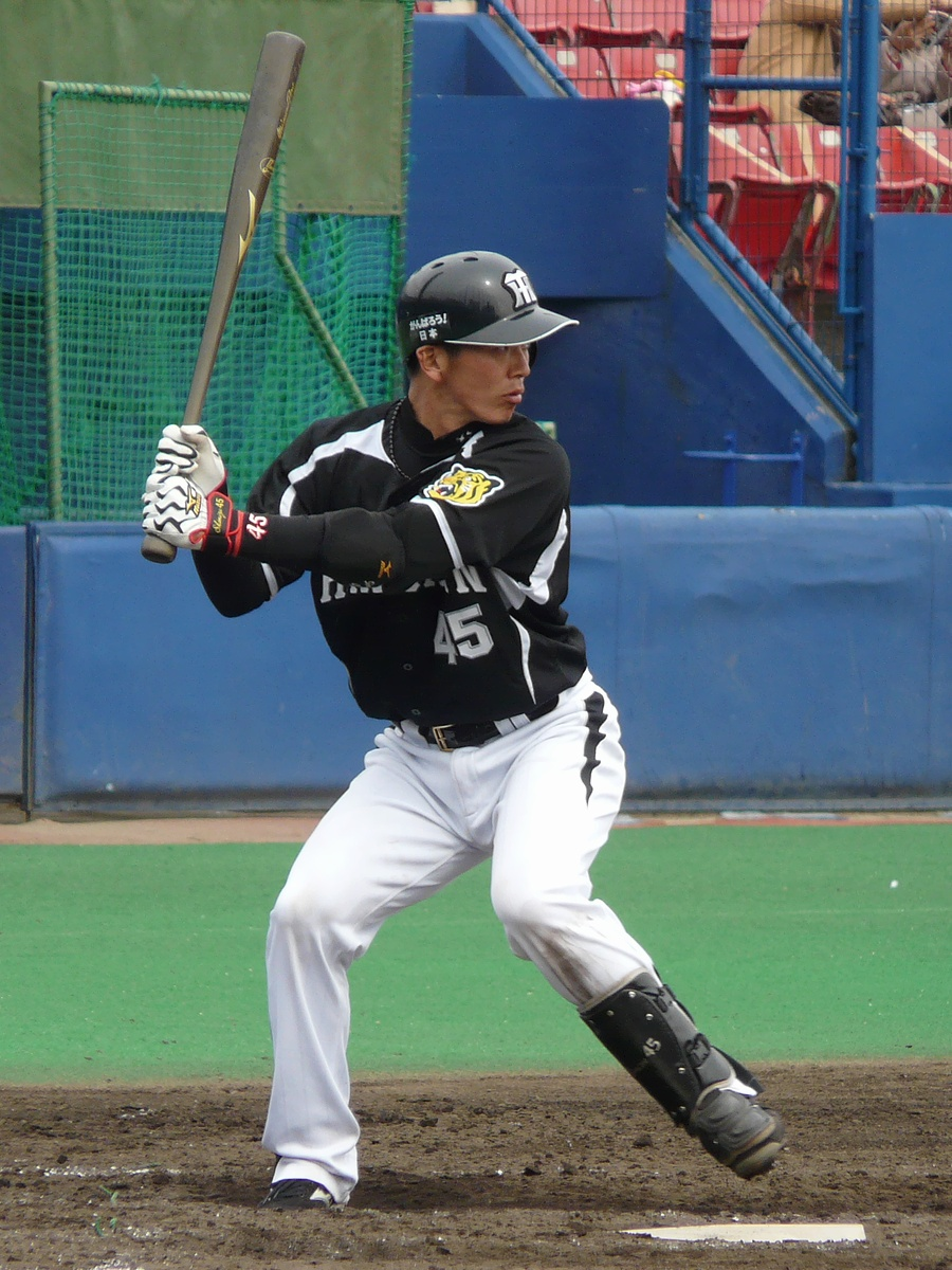 Takashi Shimizu, catcher of the Hanshin Tigers, at Nagoya Baseball Stadium